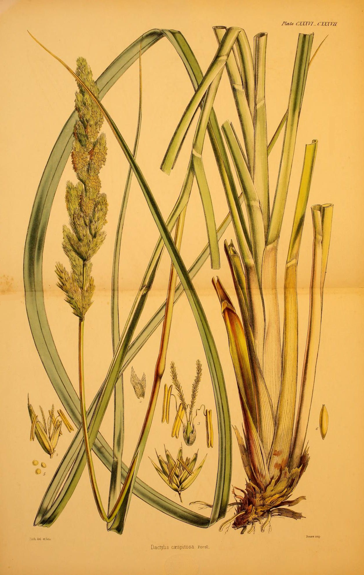 jpg of Plate CXXXVI.CXXXVII of Hooker's Flora Anatarctica. Dactylis caespitosa Forst.